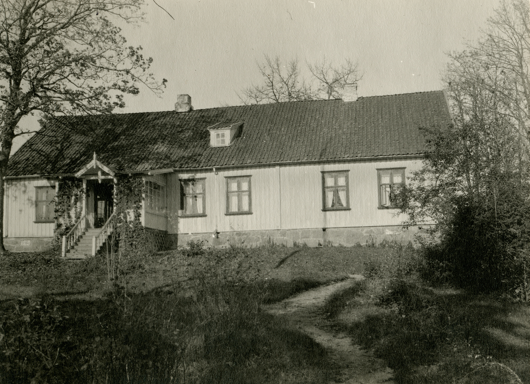 Oppført 1819. Fredet.Hagefasade